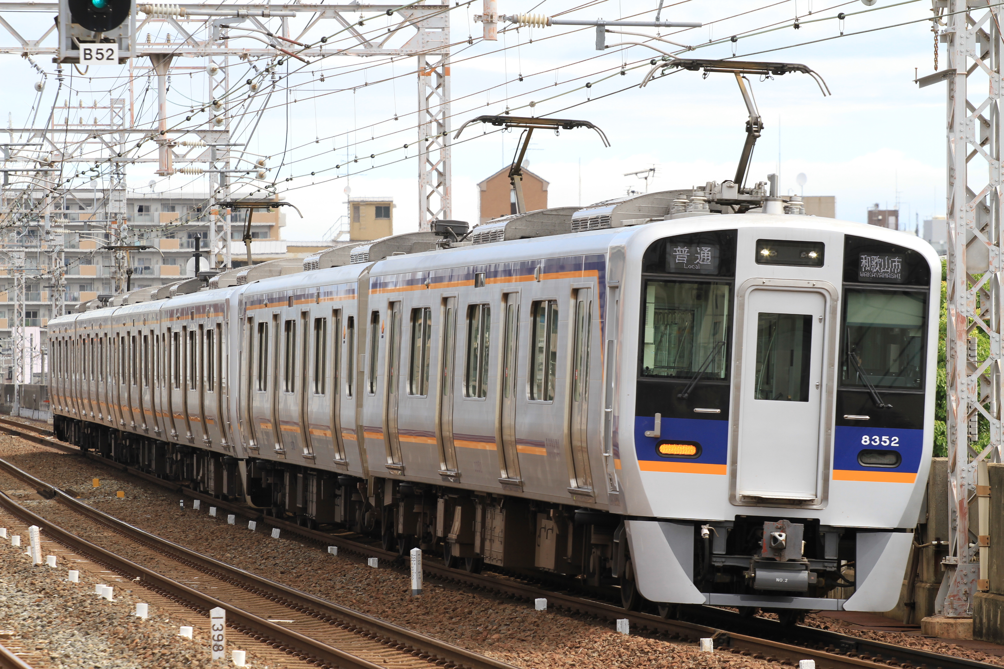 Nankai 8300 series two-car EMU set 8702 leading a six-car formation approaching Kohama Station